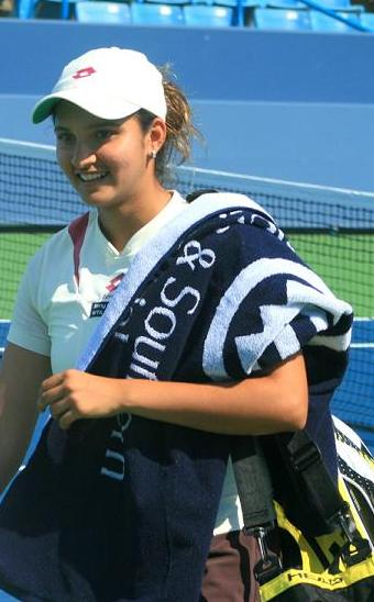 Sania Mirza at Cincinnati in July, 2007